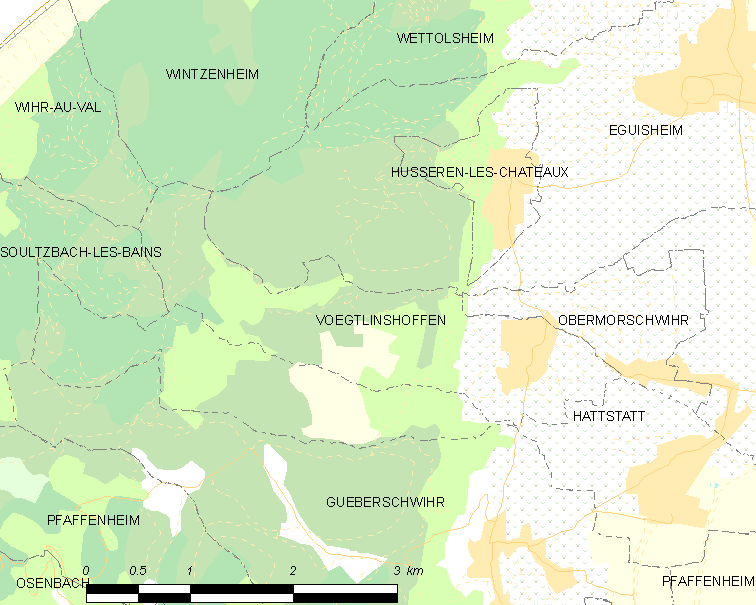 Map of French municipality